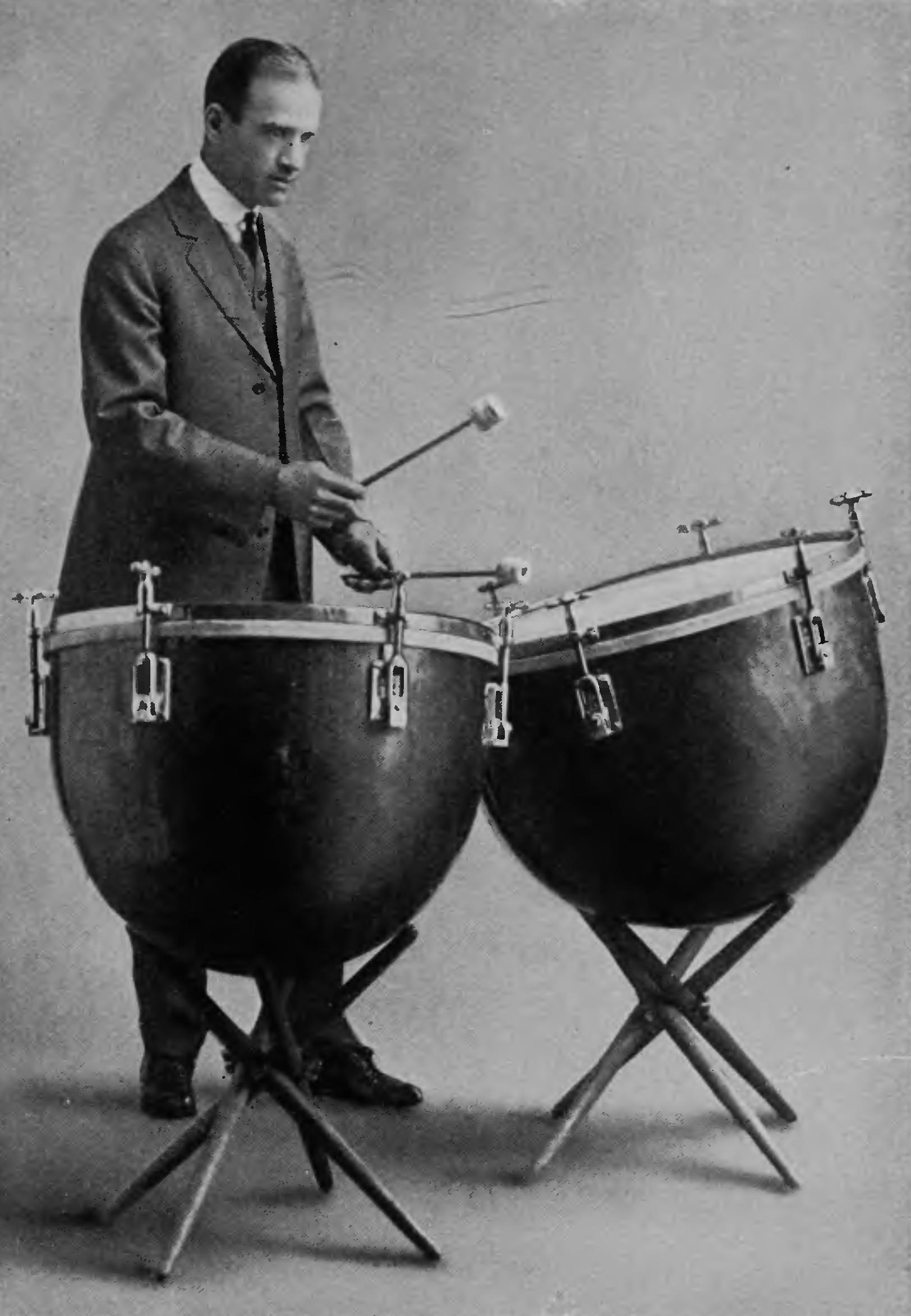 Chris. Chapman Formerly Metropolitan Opera House Orchestra, N. Y.